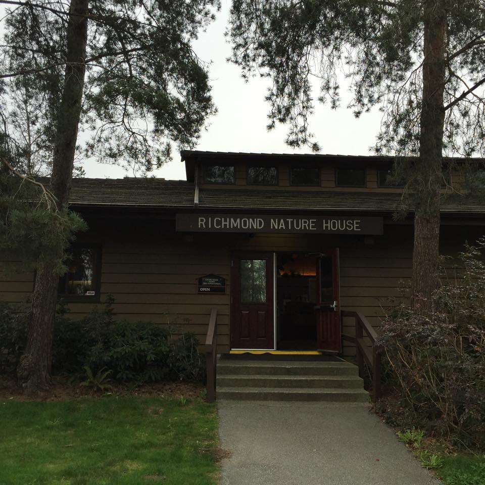 Richmond Nature House Entrance